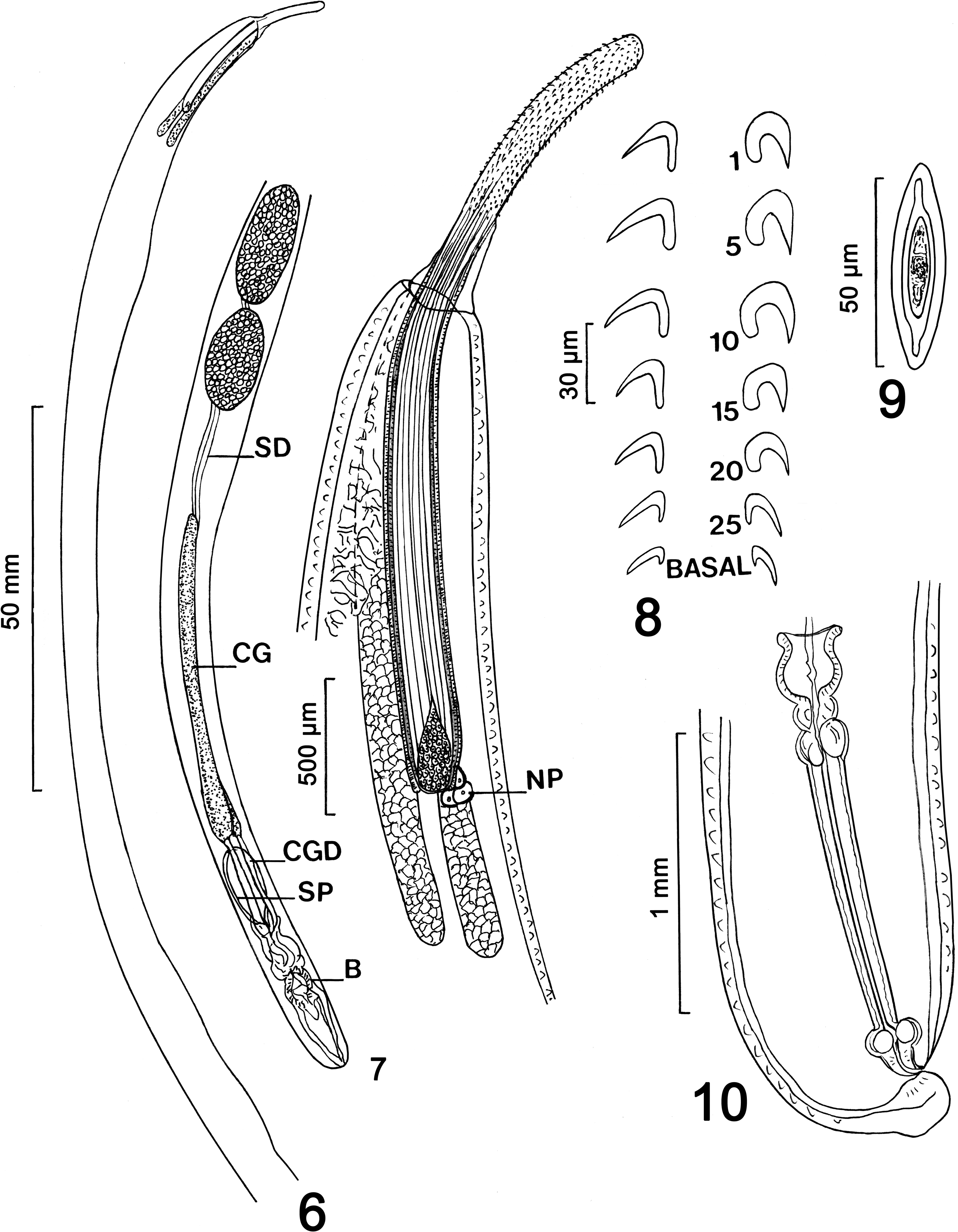 Figs 6-10 of the paper. Line drawings of specimens of Pararhadinorhynchus magnus n. sp from Scatophagus argus in Vietnam. (6) Holotype male. Note that the testes are almost contiguous with each other but not with the tubular cement glands that are somewhat enlarged posteriorly. B: bursa; CG: Cement gland, CGD: cement gland duct; SD: sperm duct; SP: Saefftigen’s pouch. (7) The anterior trunk of the same male in Figure 6. Note the size relationships between the proboscis, receptacle and lemnisci, the reticular anastomoses of lacunar vessels, shape and size of cephalic ganglion, and the presence of a nuclear pouch (NP) at the posterior end of the receptacle. The lemnisci are shown of average length but can be about twice as long or occasionally about as long but thicker. (8) Selected dorsal (left) and ventral (right) hooks numbered from anterior. (9) Mature egg. (10) Female reproductive system. Note the plump dome-shaped terminal tip posterior to the subterminal gonopore.